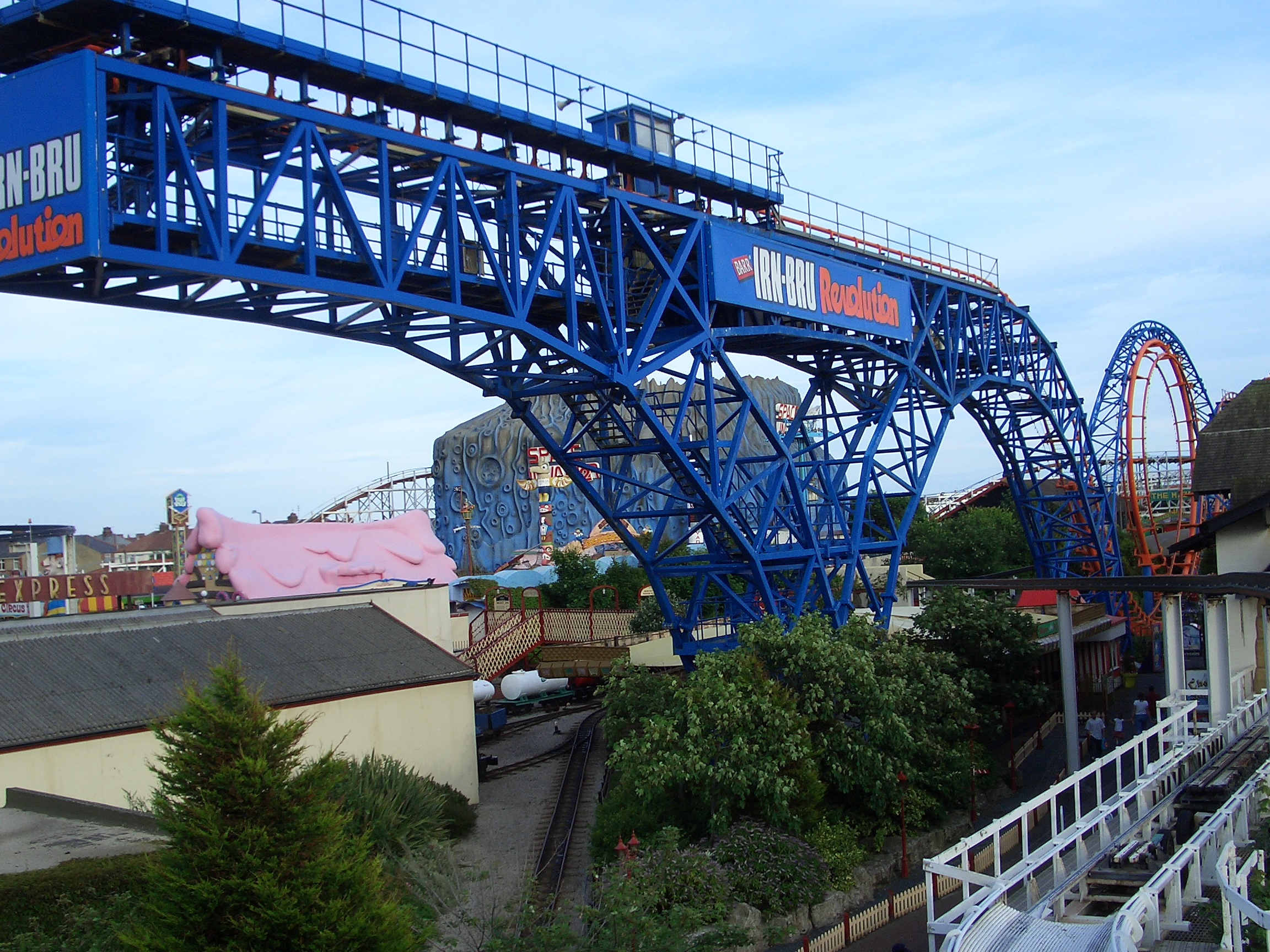 Revolution (Pleasure Beach, Blackpool) UK